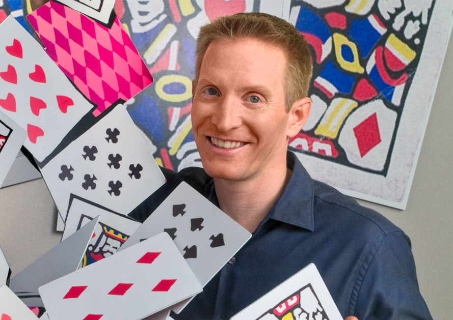 Robert Sabuda standing behind a life size pop-up from his pop-up book "Alice's Adventures in Wonderland."